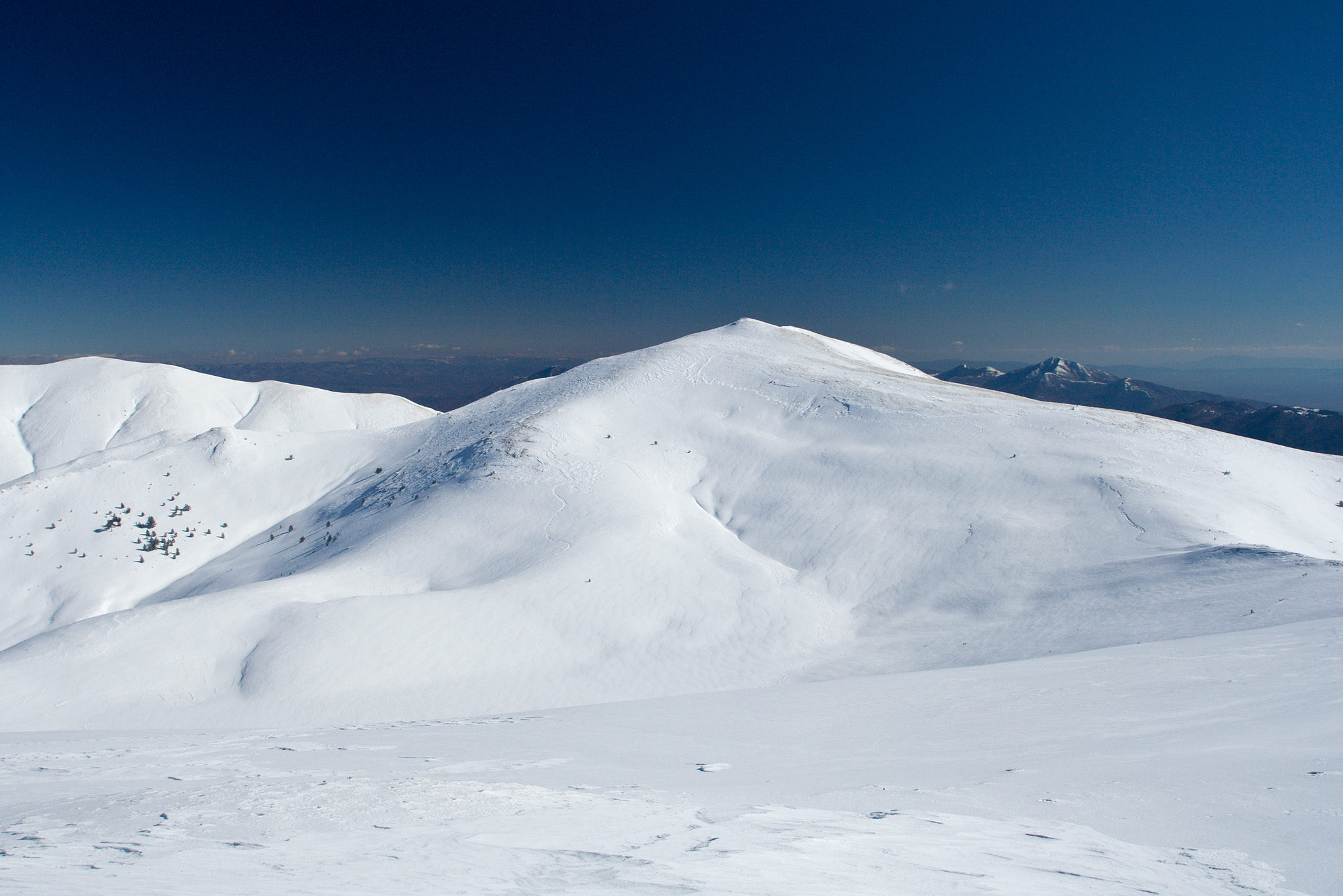 Gotsev vruh - the highest summit in Alibotush mountain, Bulgaria